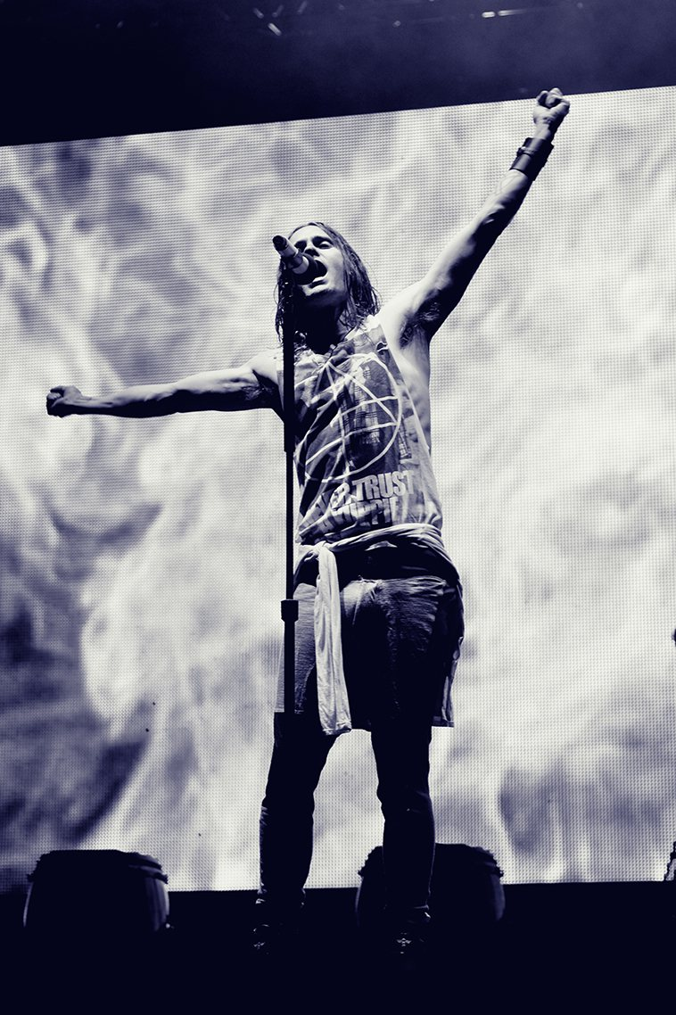 Thirty Seconds to Mars performing in Padova, Italy on July 14, 2013